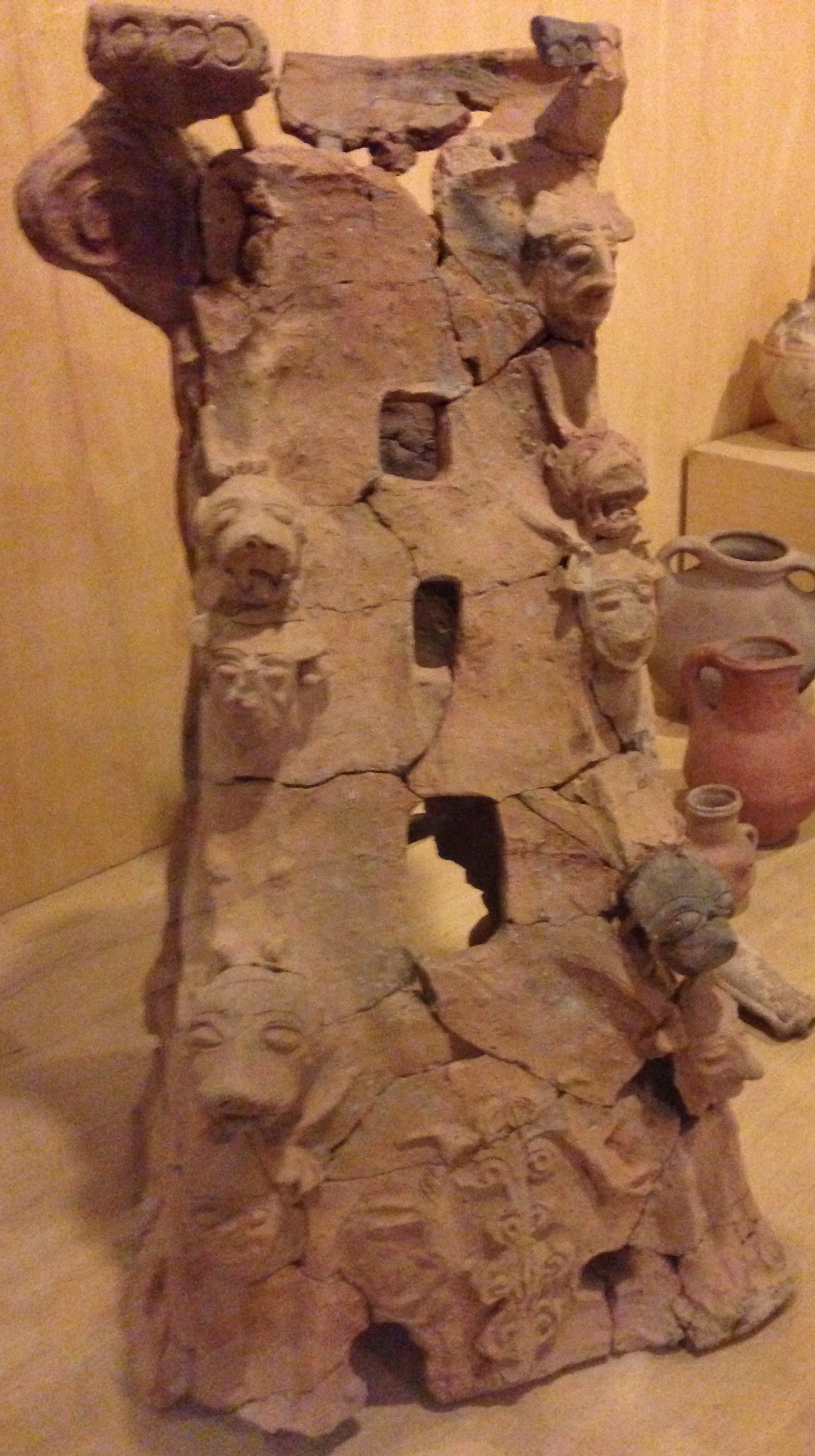 Taanach terracotta at the Istanbul Archaeological Museums